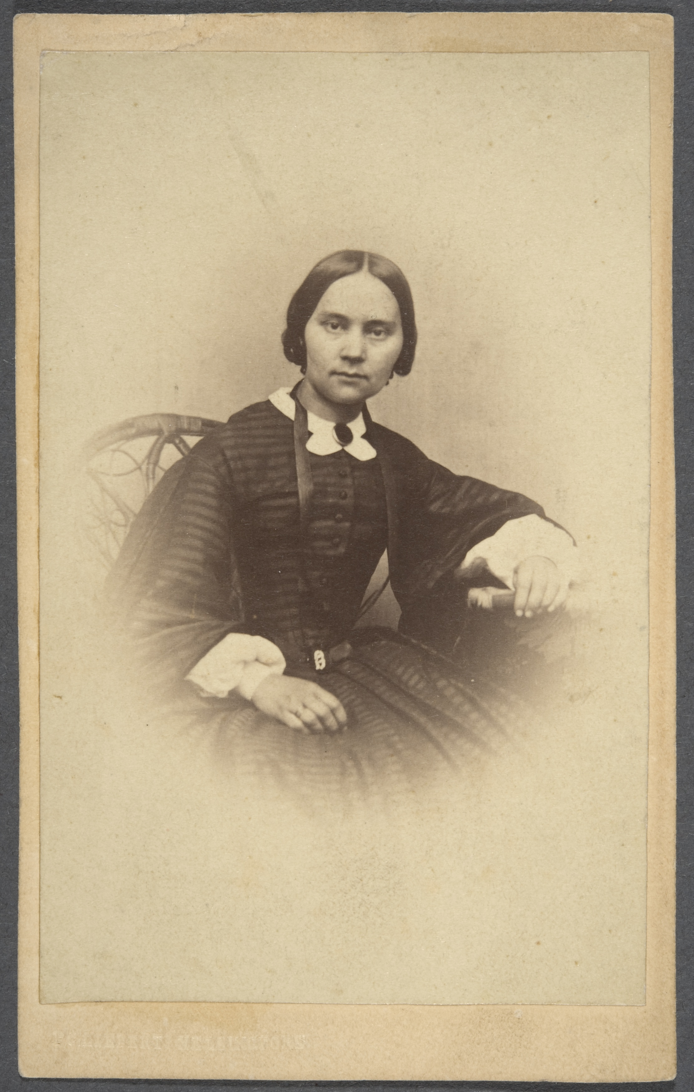 Photograph of the Finnish teacher of the blind, Johanna Mathilda Linsén (1831–1872).